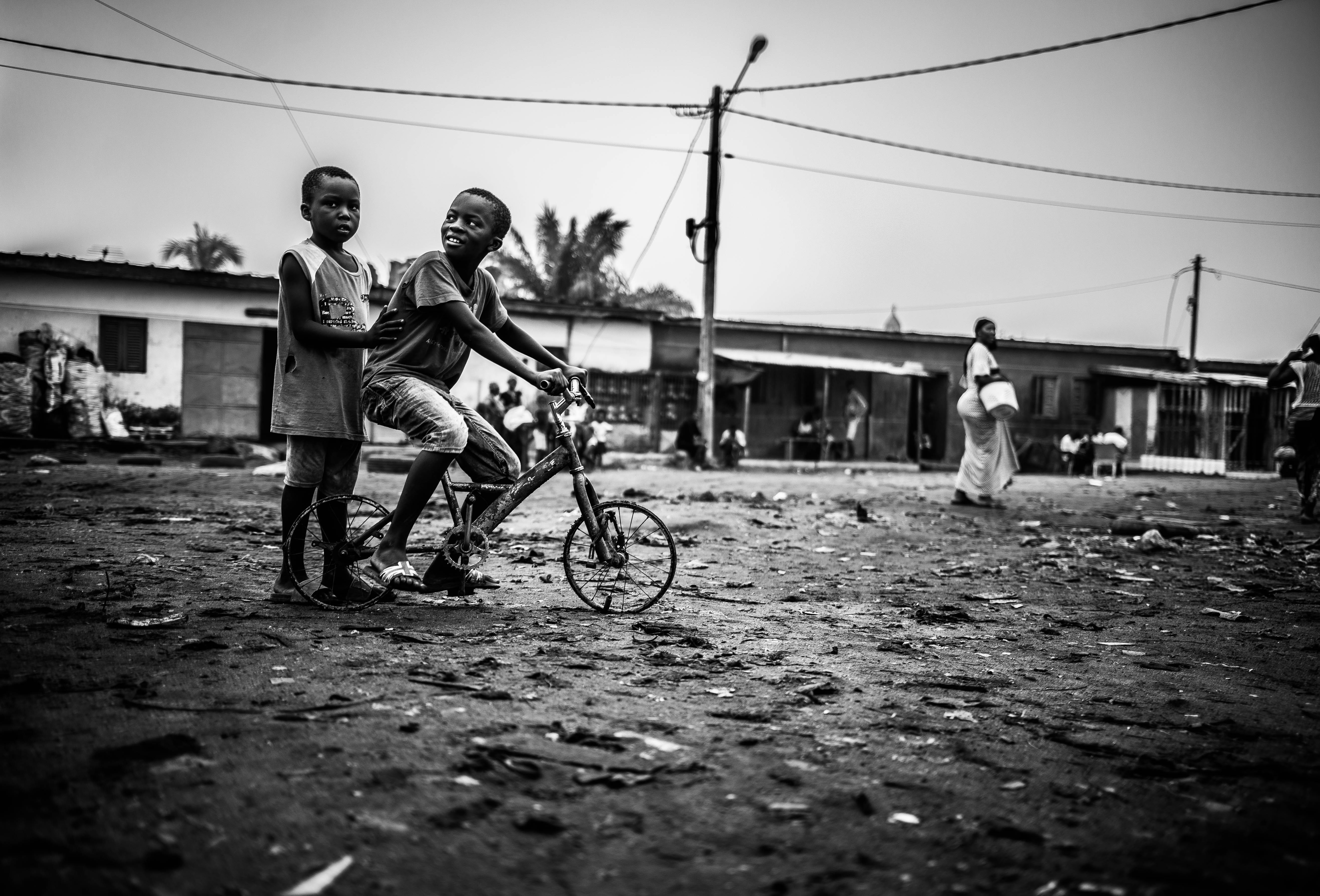 Deux enfants qui se déplace à travers leur quartier à l'aide d'un vélo que chacun prend à tout de rôle This is an image with the theme "Africa on the Move or Transport" from: Ivory Coast